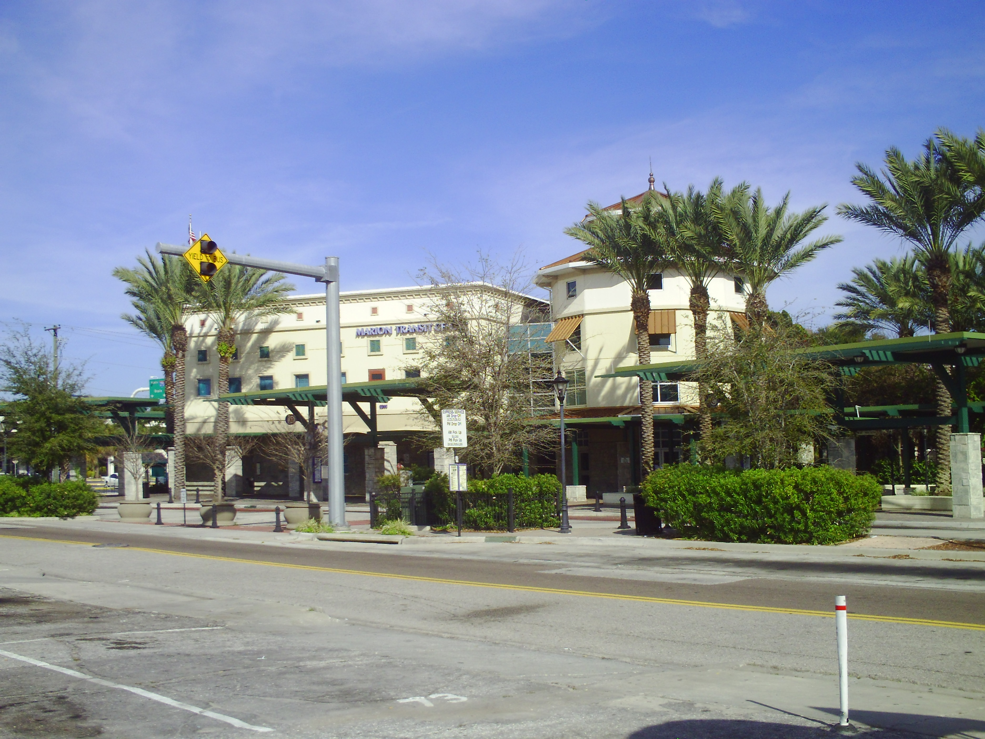 HART's Marion Transit Center in November 2007